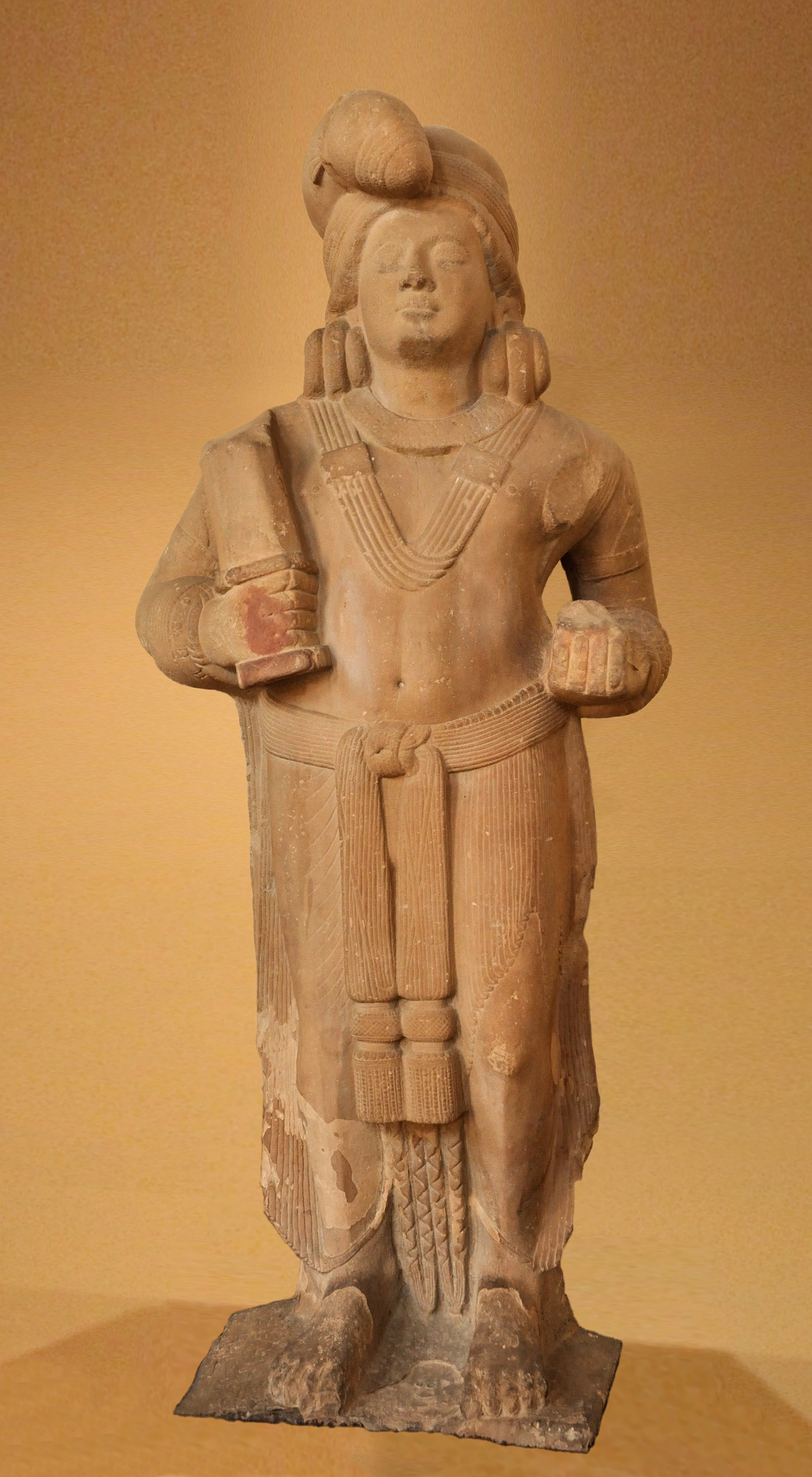 Madgarpani Yaksha, Mathura, 100 BCE